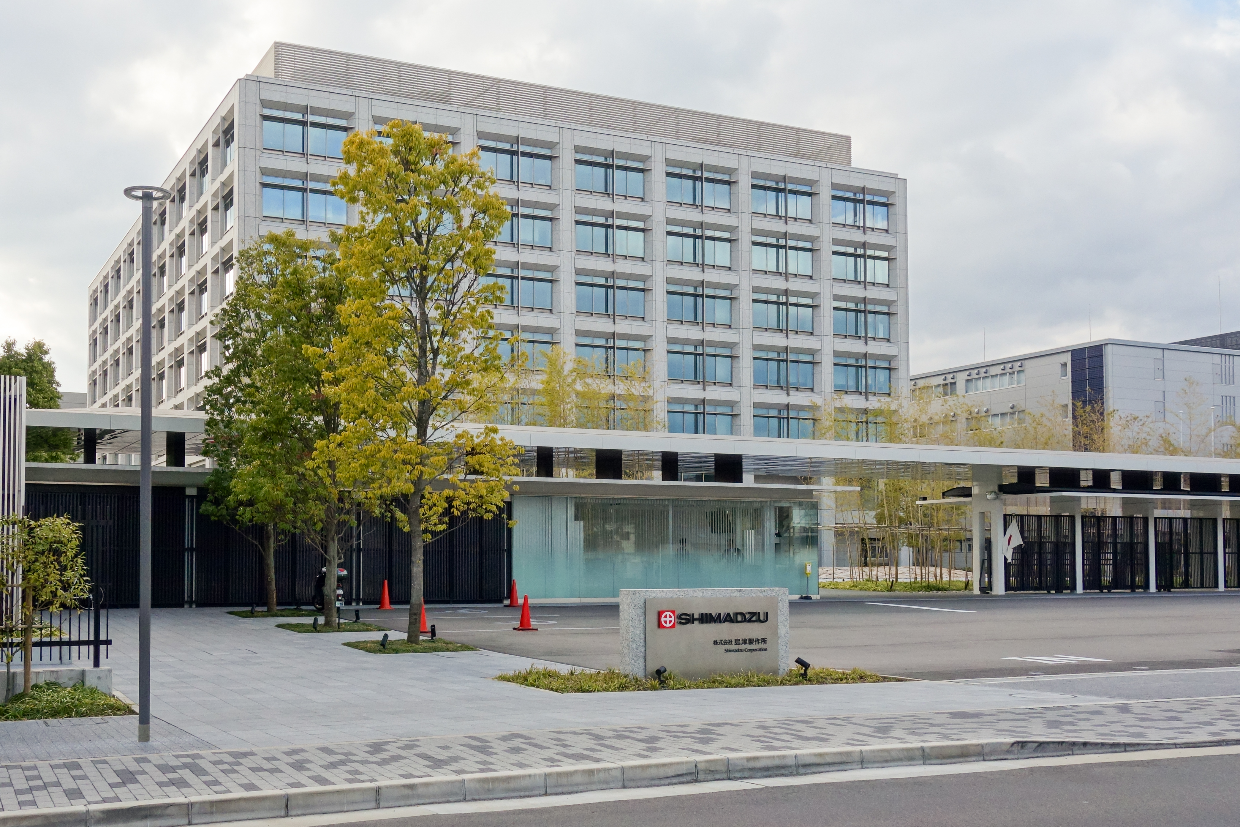 Photograph of the southeast side view of Shimadzu Corporation E1 Building (headquarters) in Nakagyo-ku, Kyoto, Kyoto Prefecture, Japan.